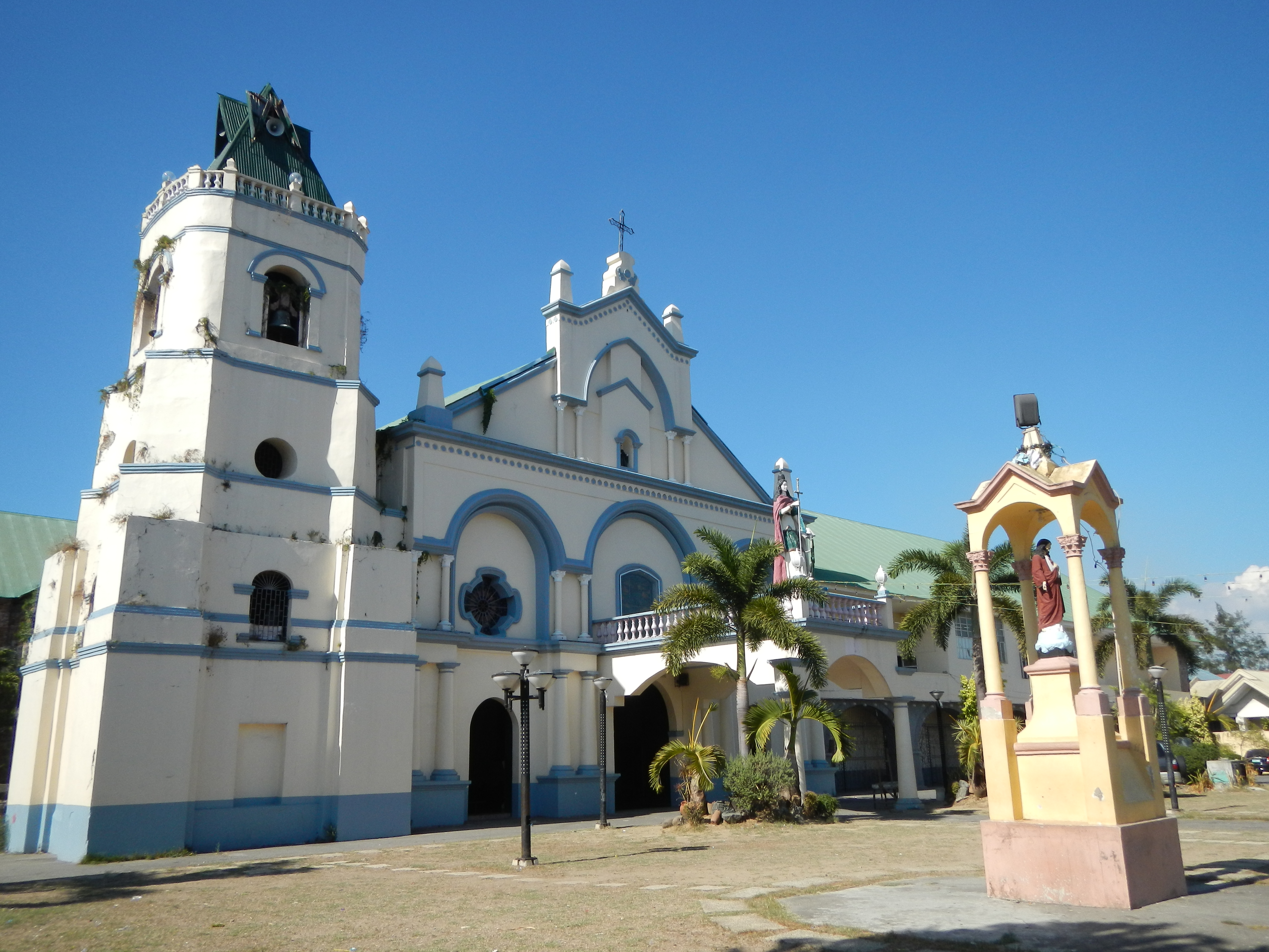 Arayat, Pampanga : Centro Town Proper of Barangay Poblacion, Barangay Hall in front of the Heritage Saint Catherine of Alexandria or Sta. Catalina Church and beside the Arayat Mini Park beside the Arayat Institute, along the Olongapo-San Fernando-Gapan National Road.